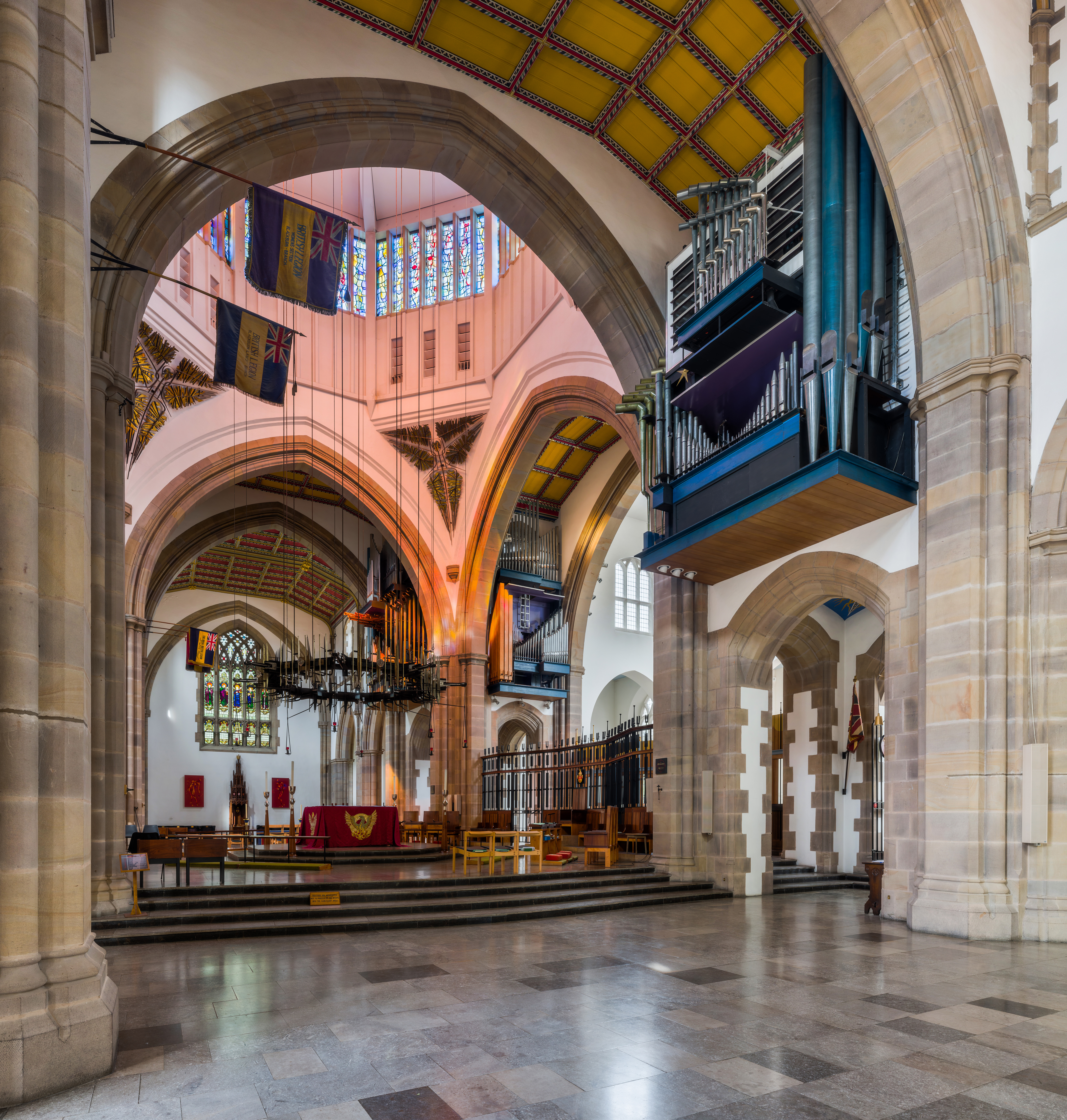 The organ of Blackburn Cathedral in Blackburn, Lancashire, England.